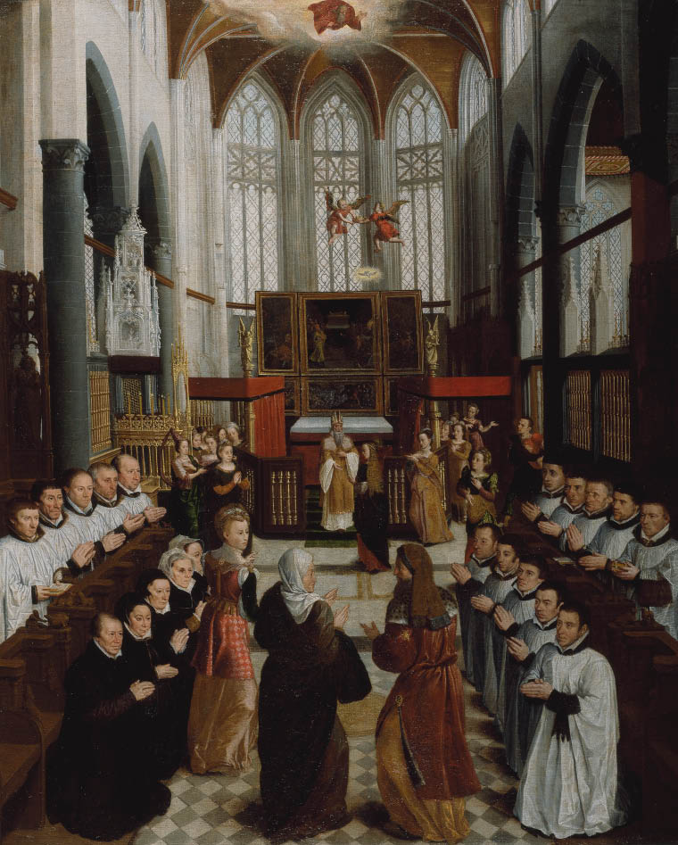 Pieter Claeissins the Elder, The Presentation of the Virgin in the Temple (Devonshire Collection, Chatsworth House) Painting showing the interior of the St James' Church in Bruges before the Beeldenstorm